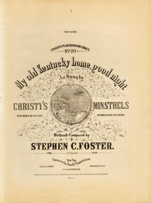 Sheet music cover